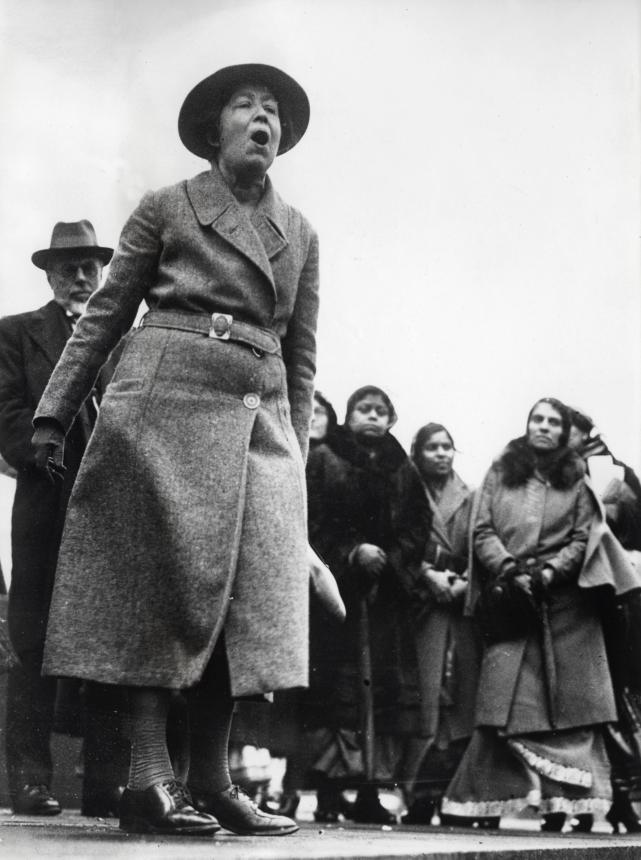 Suffragette Sylvia Pankhurst (women's rights movement), daughter of Emmeline Pankhurst, protesting the English policy in India. Trafalgar Square, London, England, [1907-1914].